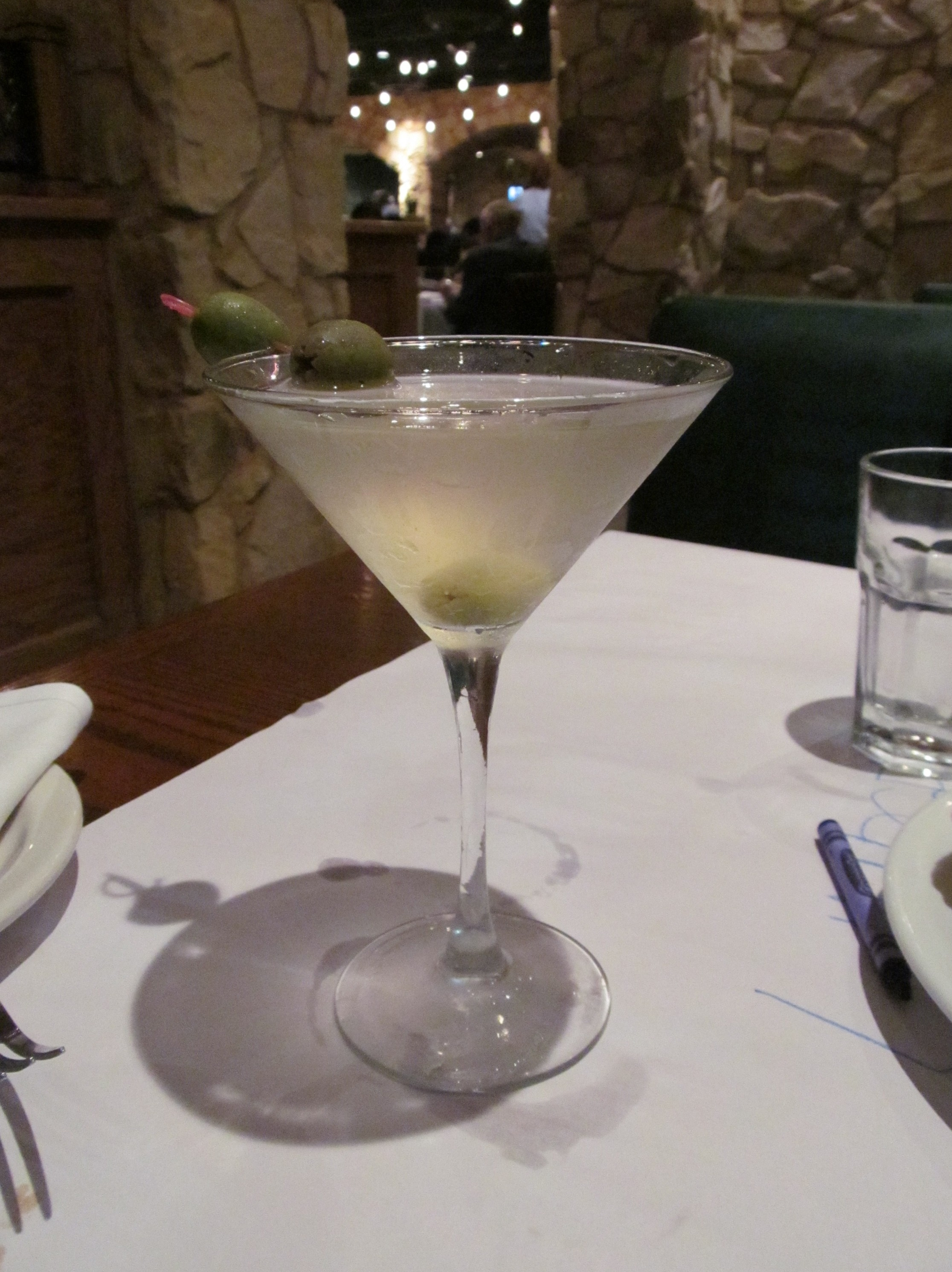 Vodka Martini, Macaroni Grill, Dunwoody Georgia